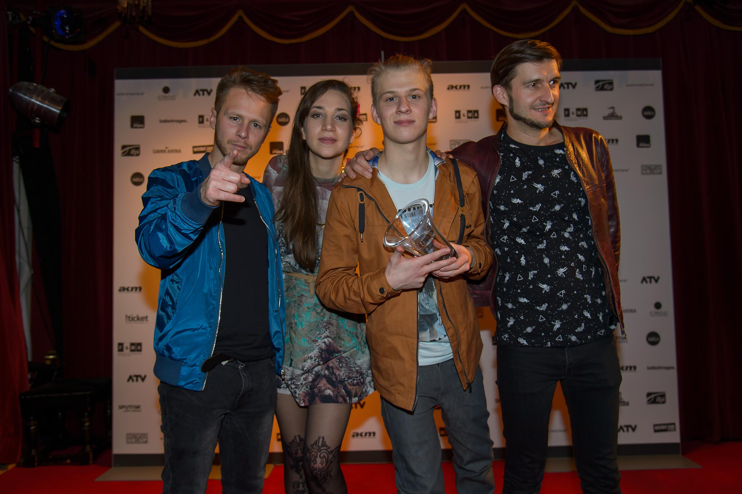 Amadeus Music Awards 2015,Volkstheater, Wien, 29.3.2015,Thorsteinn EINARSSON